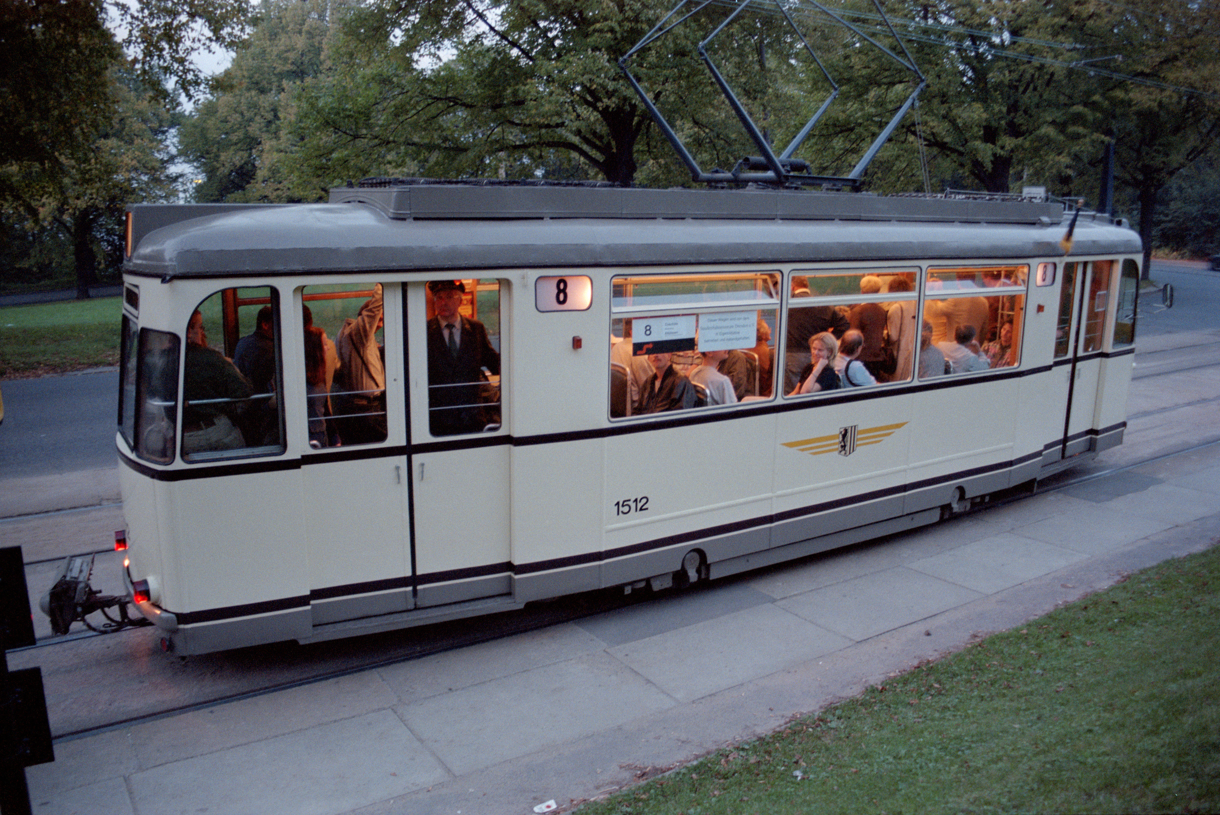 old Tram in Dresden type: Gotha T59E